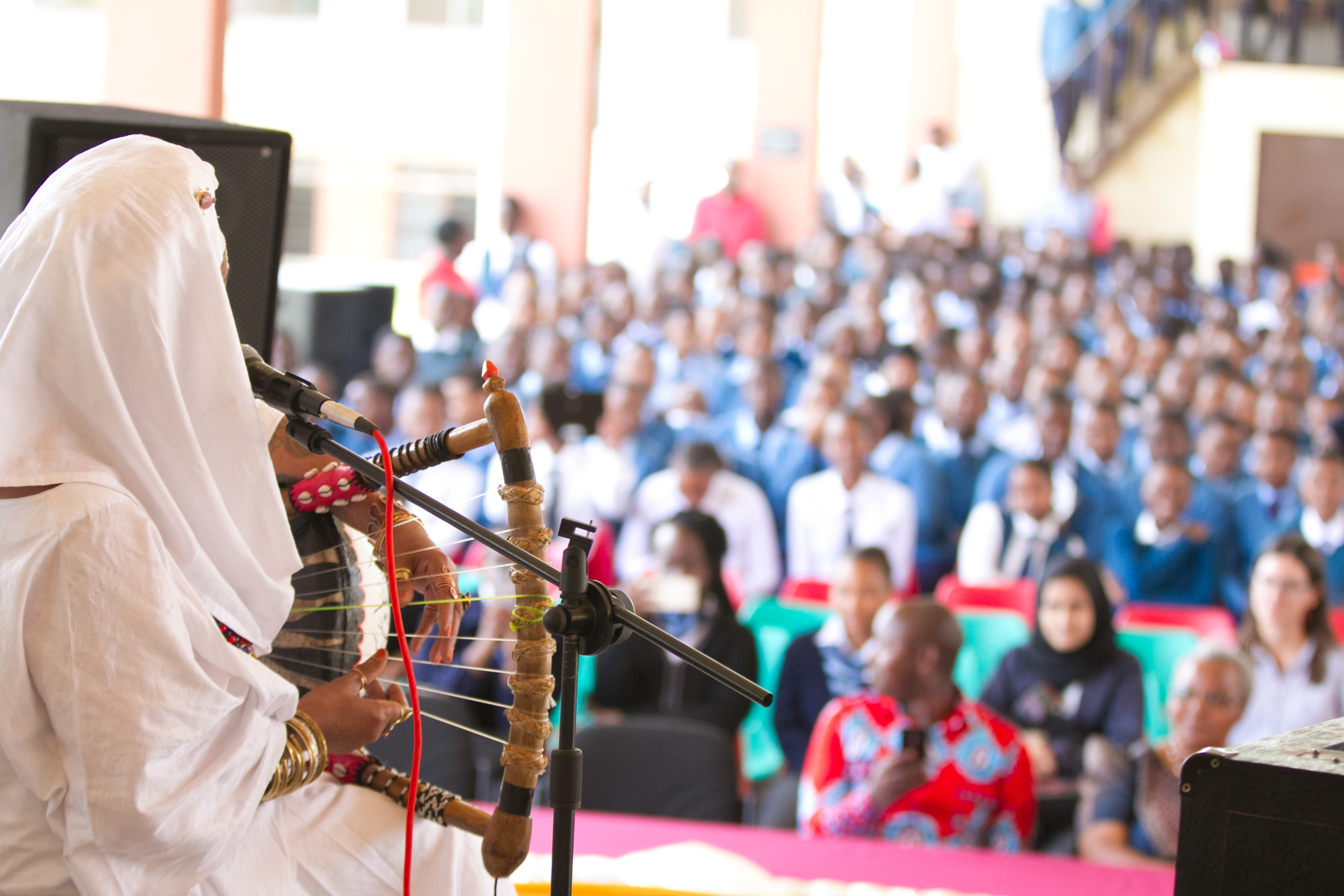 Traditional music in most of the continent is passed down orally (or aurally) and is not written. In African producing instruments include Nyatiti.This woman is playing Nyatiti during School Cultural day In Tanzania This is an image with the theme "Play" from: Tanzania